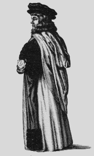 Convocation dress of a Doctor of Civil Law in the University of Oxford, detail scanned from a reproduction of a 1675 engraving (Habiti Academici, part of the series Oxonia Illustrata) by David Loggan